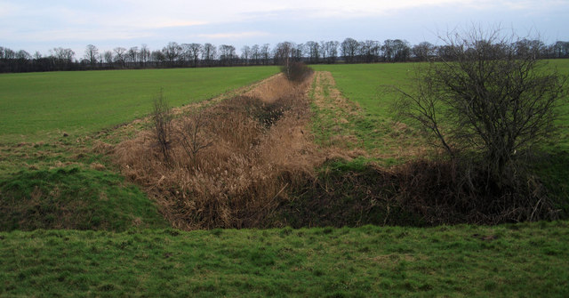 Short drain Only goes half way across the field, in the background is Long Plantation.